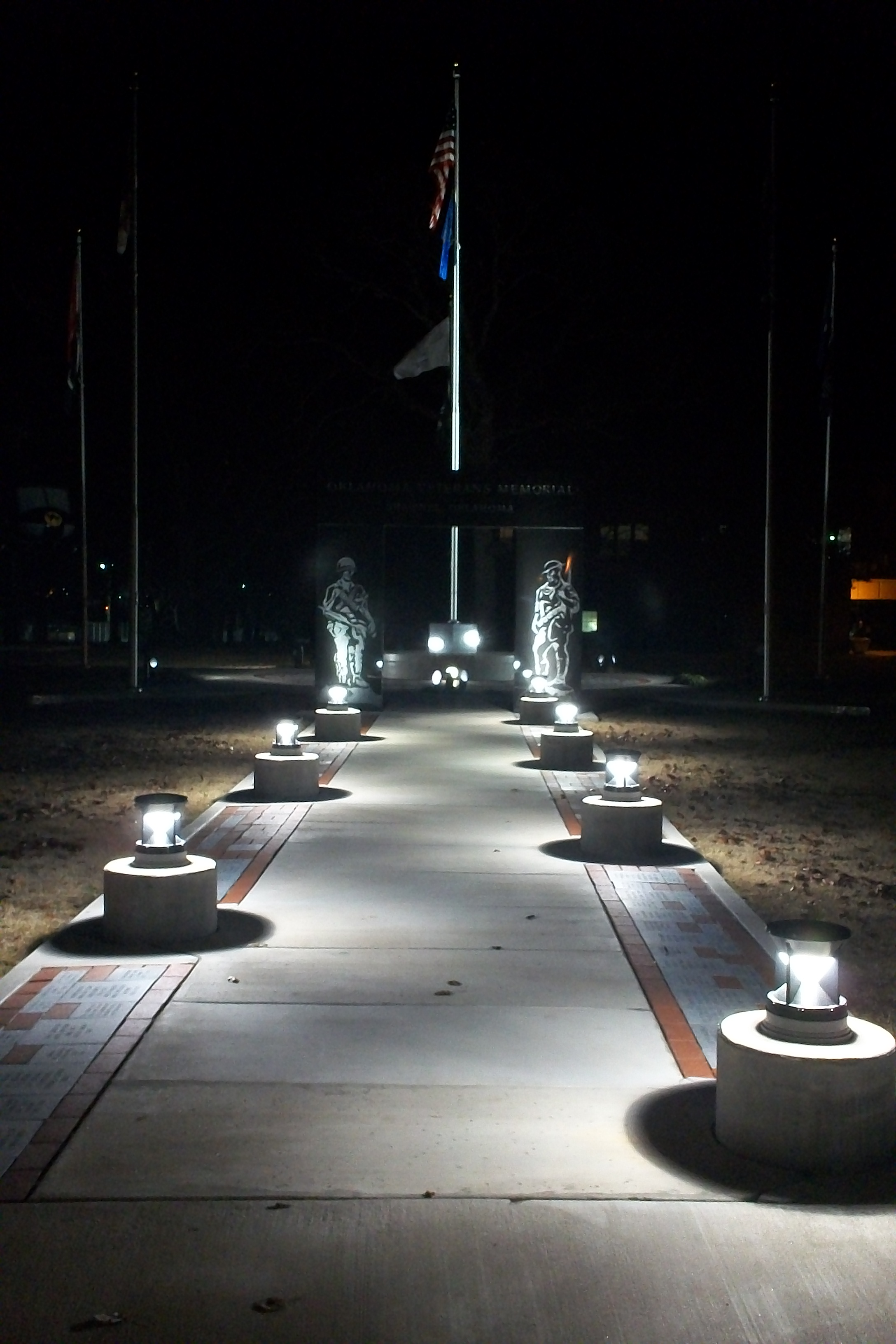 Night portrait of the veteran's memorial